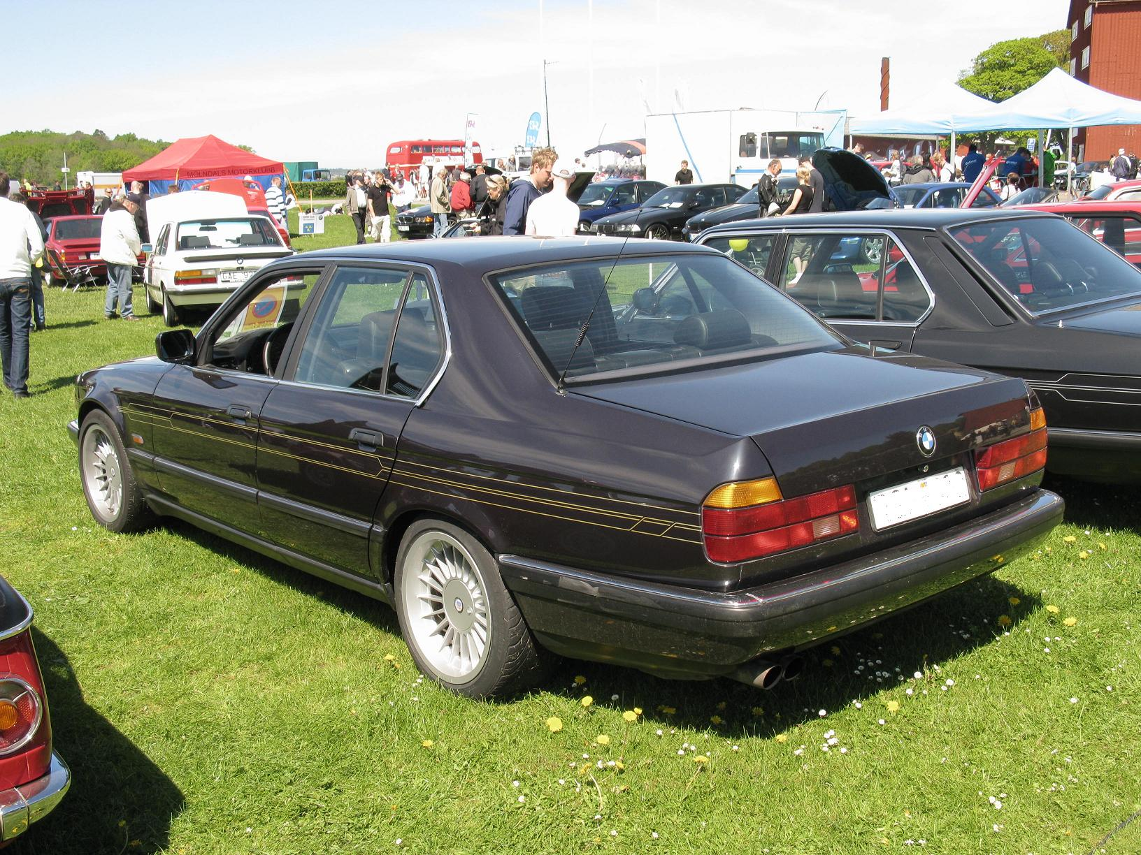 1991 BMW Alpina B12 5.0, number 243 of 305 built. 177,988 km as of 5 May, 2015. Vehicle registration enquiry resultsJurisdictionSwedenRegistrationRGL502Chassis codeWAPBC50001D100243Engine code257kW, petrolCompliance date1991-05-29 (first reg) 2005-03-29 (in Sweden)Year of manufacture1991Weight1940 kg